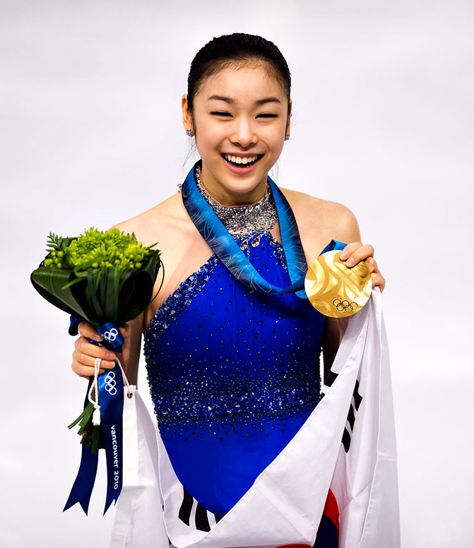 Yuna Kim at the 2010 Winter Olympic figure skating medal ceremony in Ladies single.